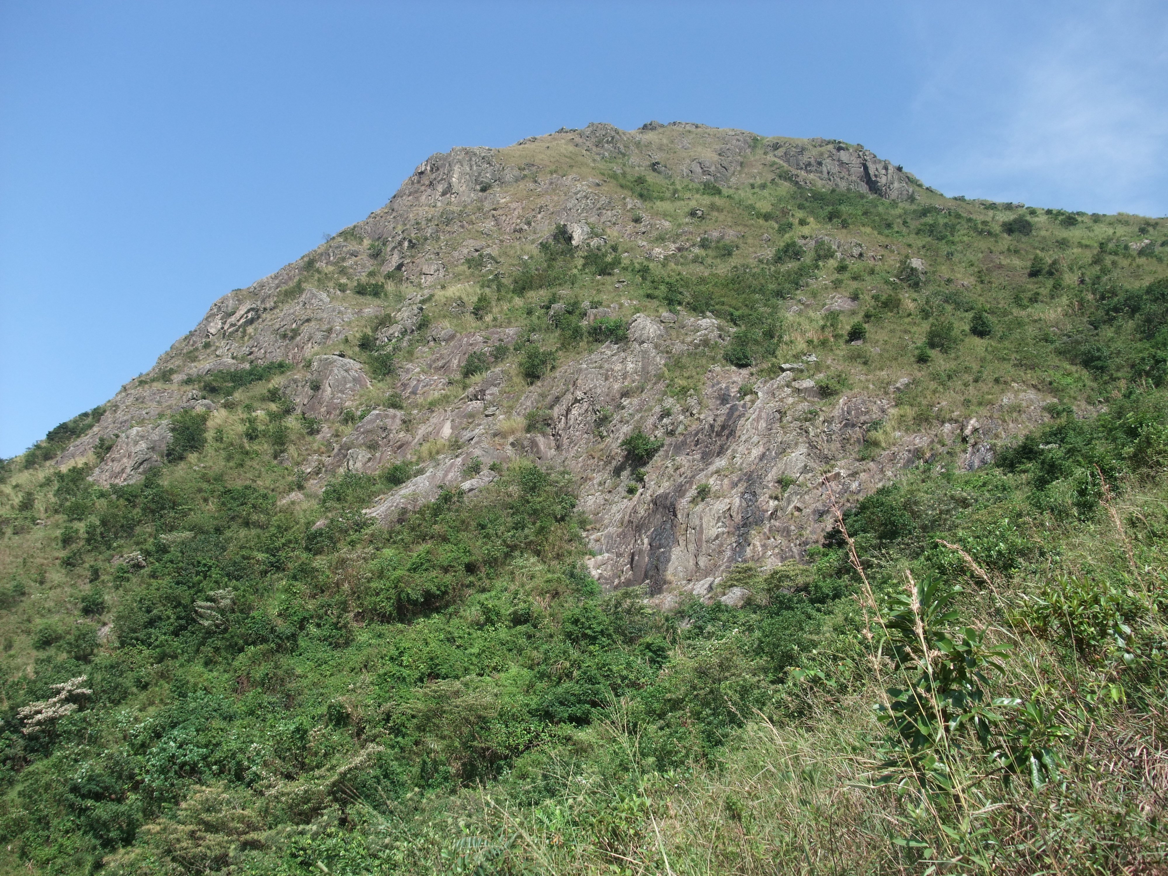 Photo of Kowloon Peak